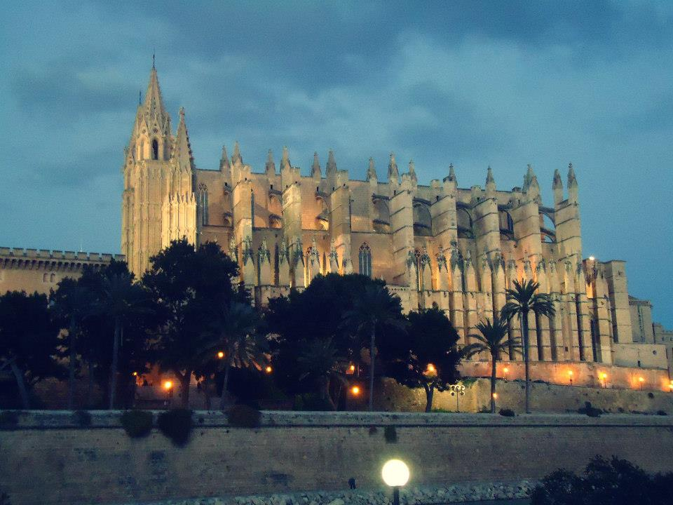 Catedral de Palma de Mallorca.